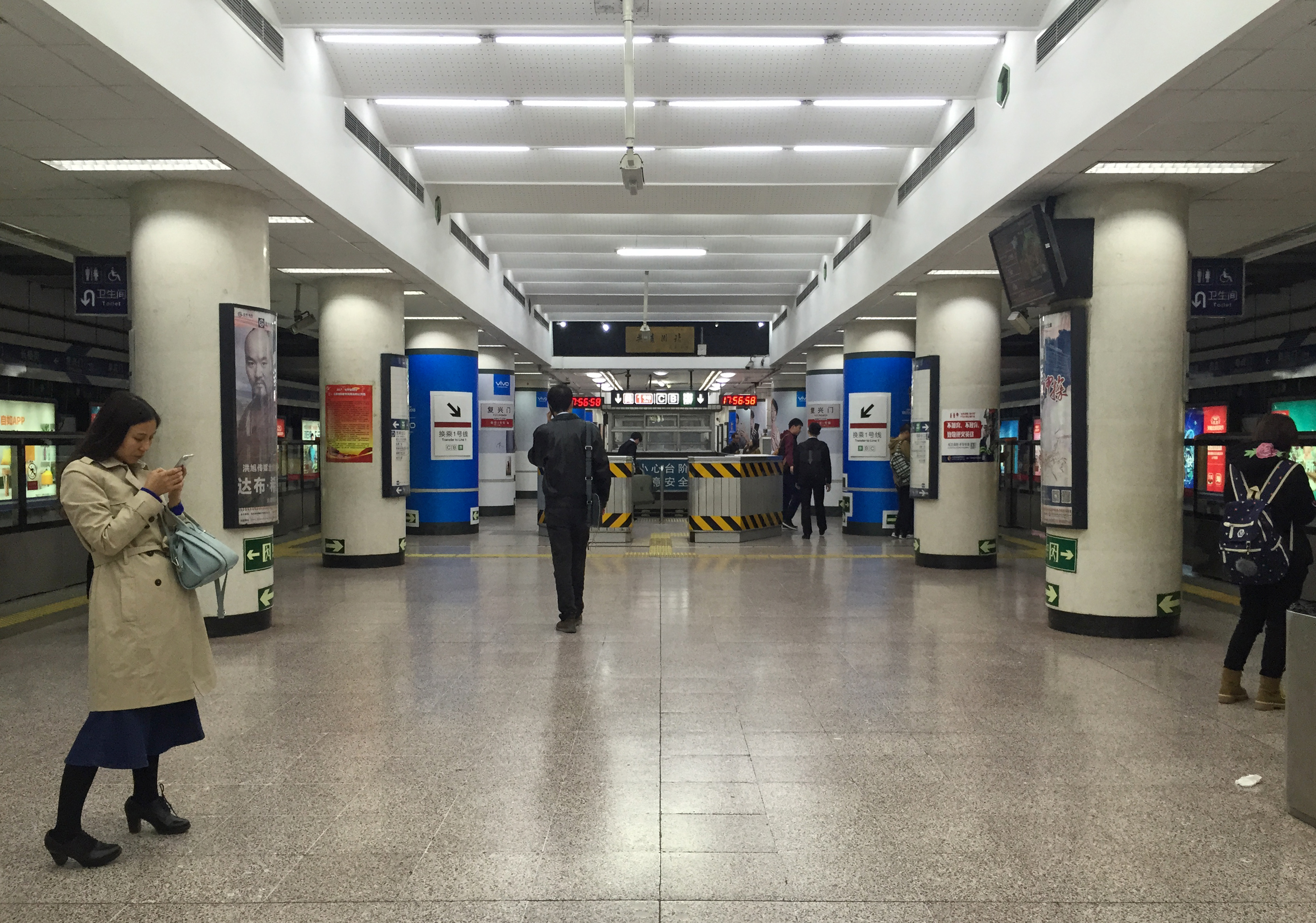 Not all pillars are advertised.